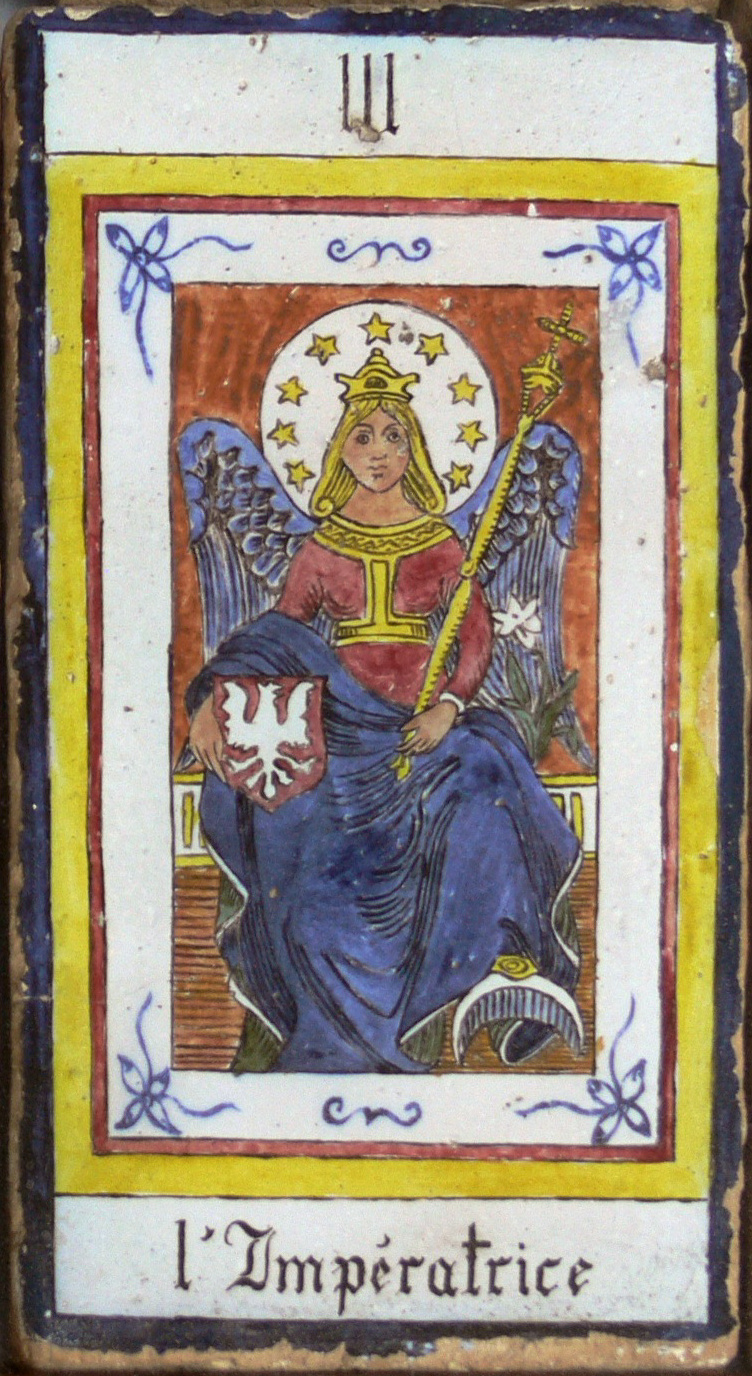 Impératrice (Emperess), the third card of the Major Arcana of the Tarot